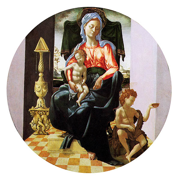 Master of the Manchester Madonna: Virgin an Child with Saint John; Oil on wood, Diameter 66 cm